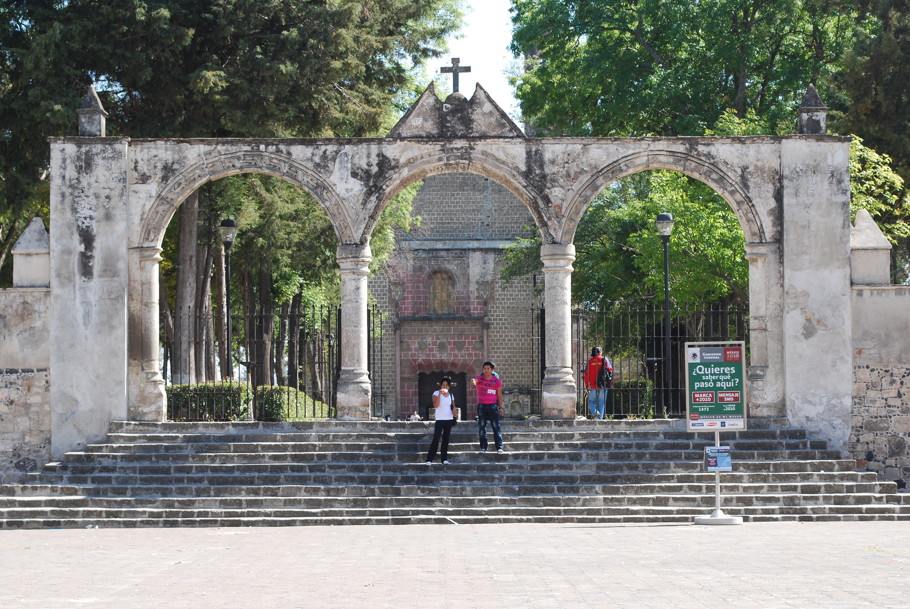 Atrium entrance to the monastery of San Miguel Arcangel in Huejotzingo, Puebla, Mexico